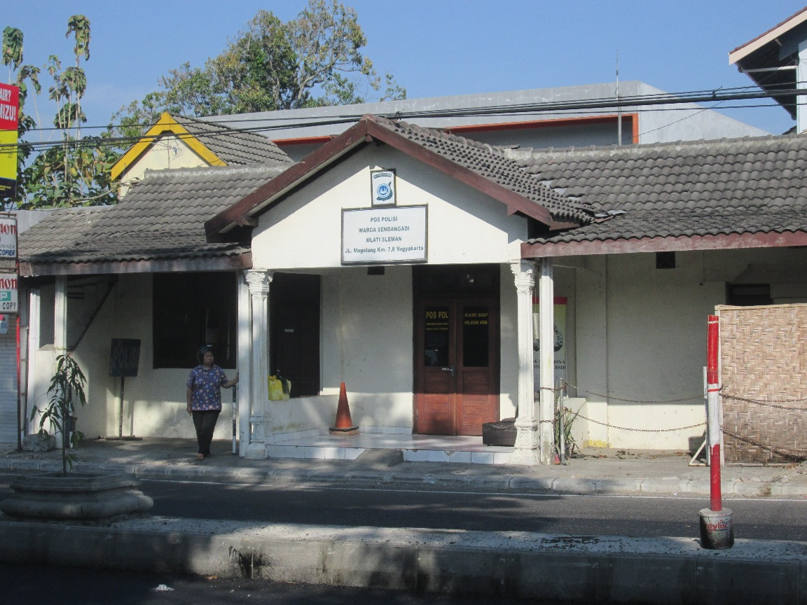 Mlati railway halt that used for police station.